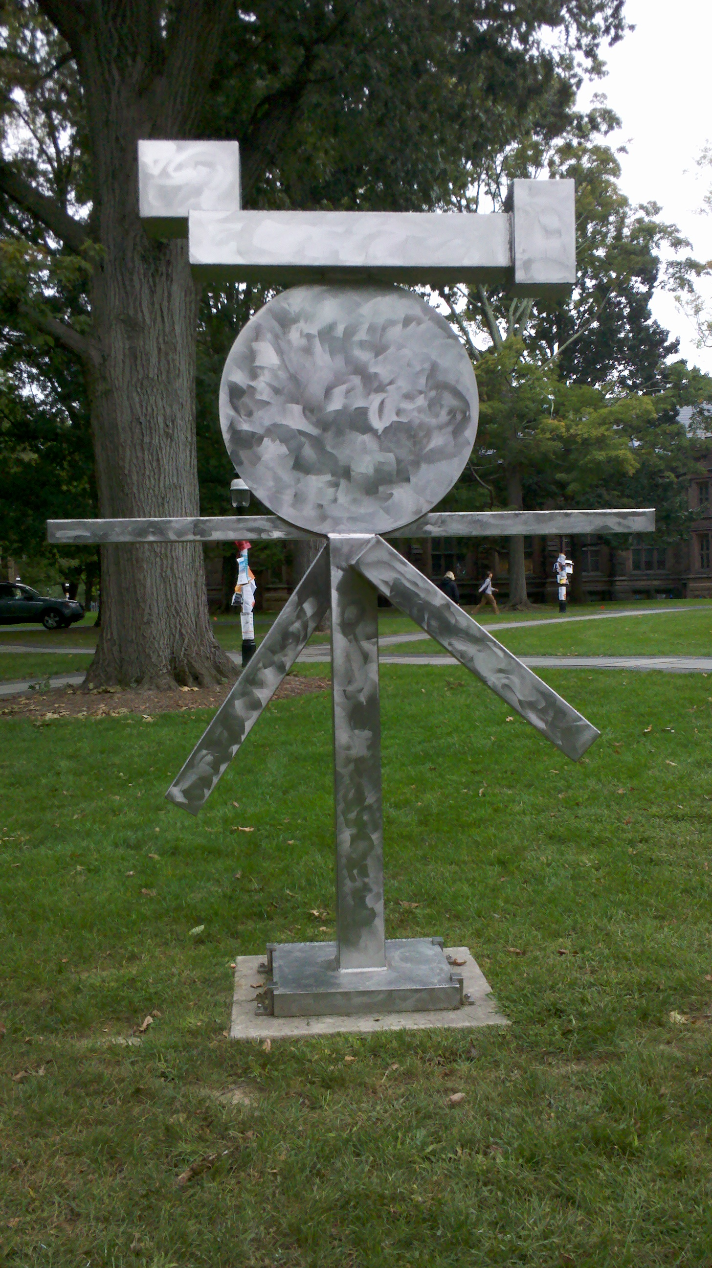 Cubi XIII sculpture on Princeton University campus by David Smith